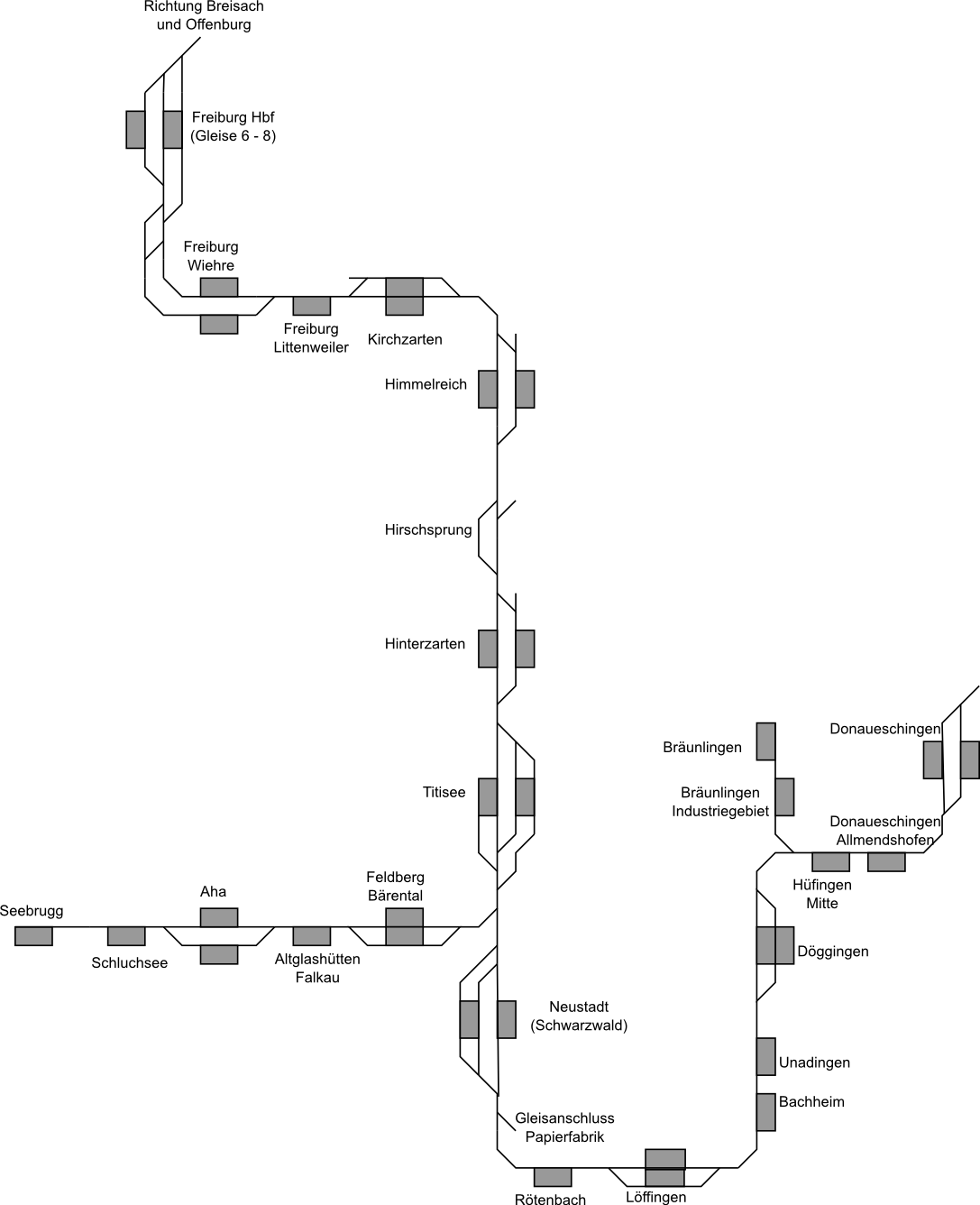 Track plan of the Höllentalbahn and Dreiseenbahn.